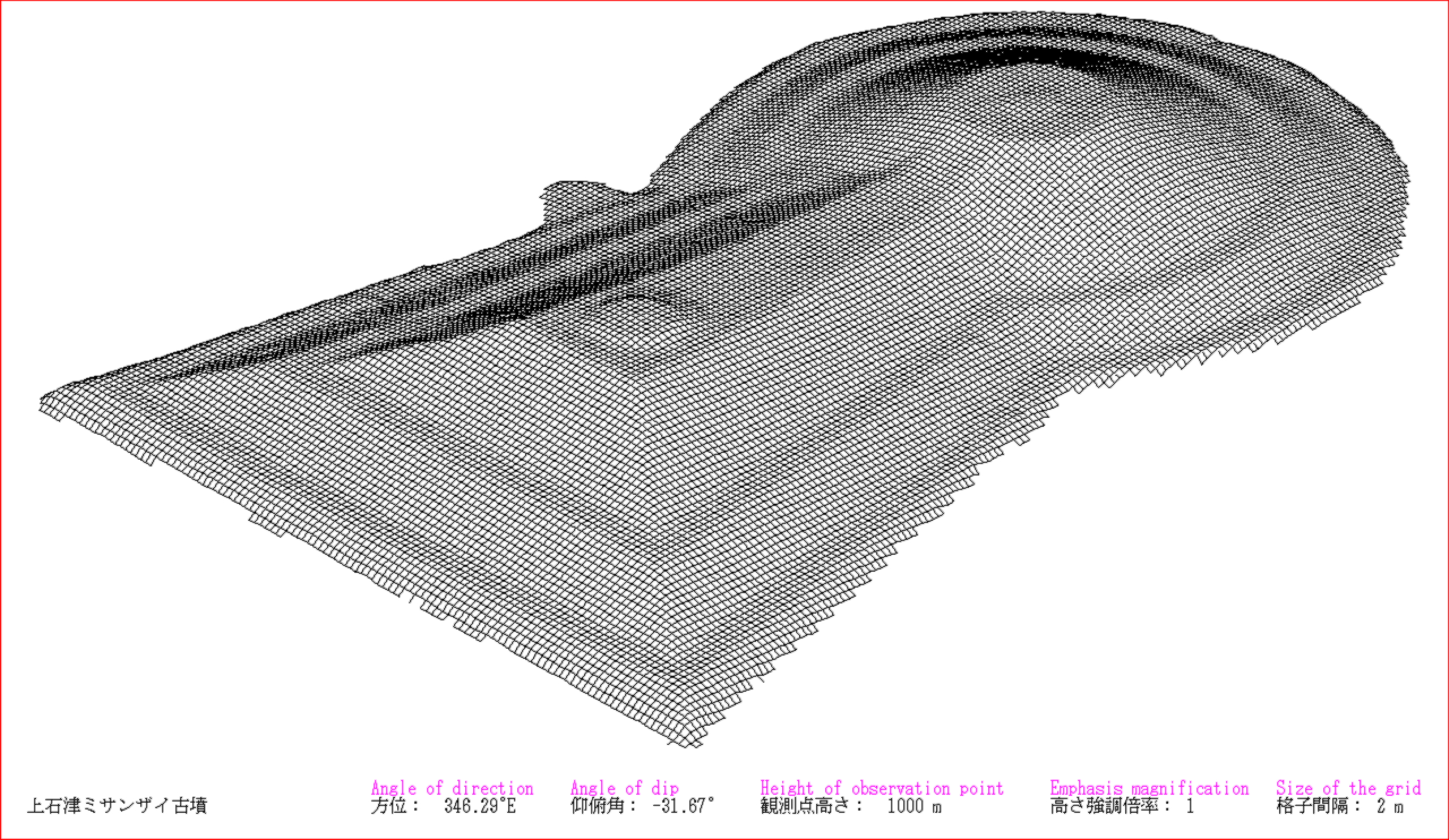 I who am a contributor drew the picture by a software which developed by myself. The survey map which I referred to depends on "「履中天皇陵古墳」『百舌鳥古墳群測量図集成』堺市 (2015年）". This is a drawing of present situation (not a drawing of a restored mound). The drawing depends on wire frame. Perspective projection.